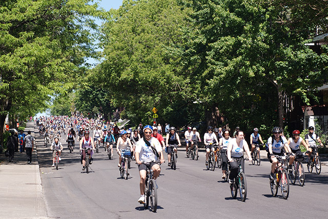 Tour de l'île de Montréal